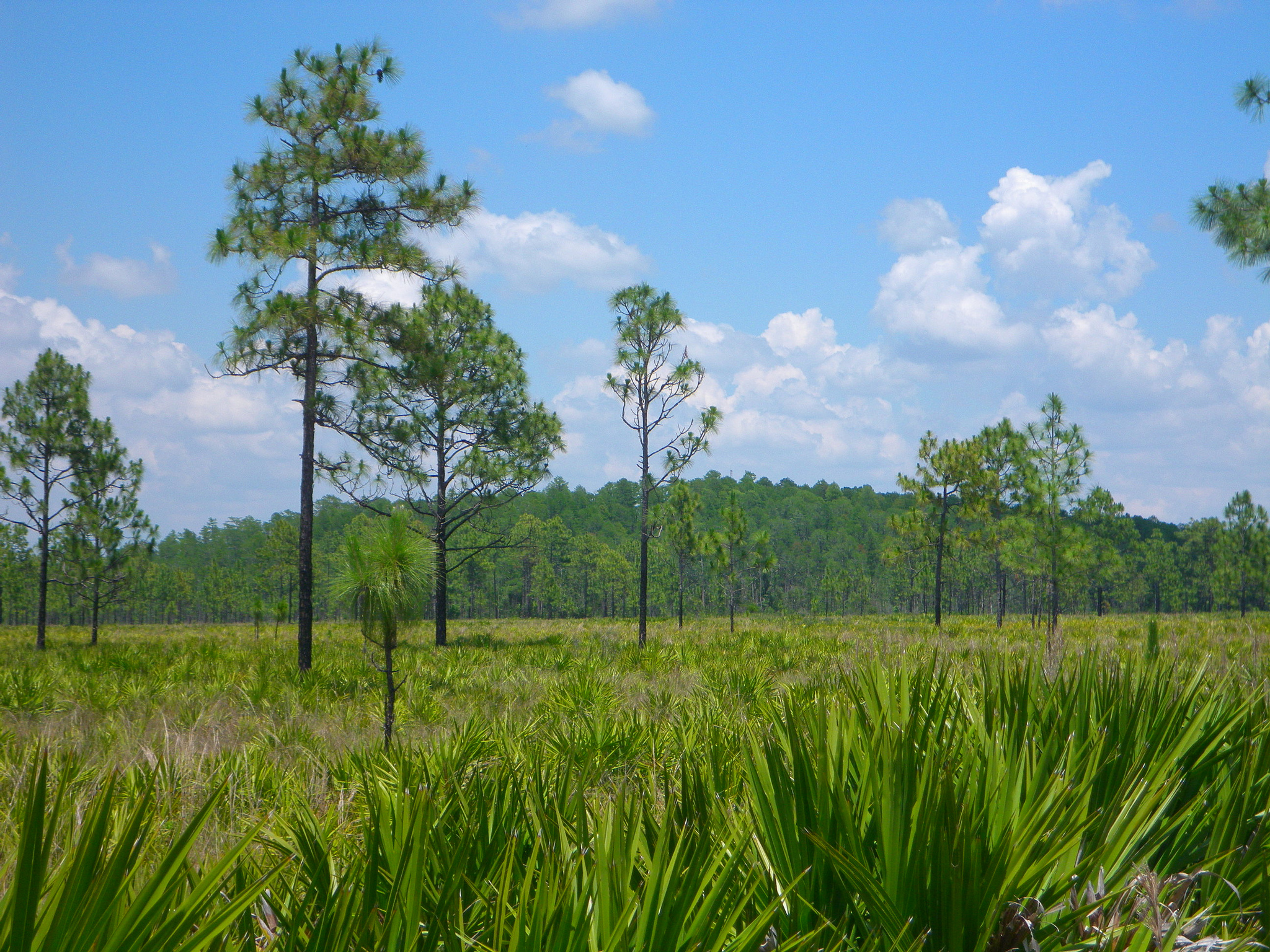 Cypress dome, Starkey Wilderness Preserve, Florida